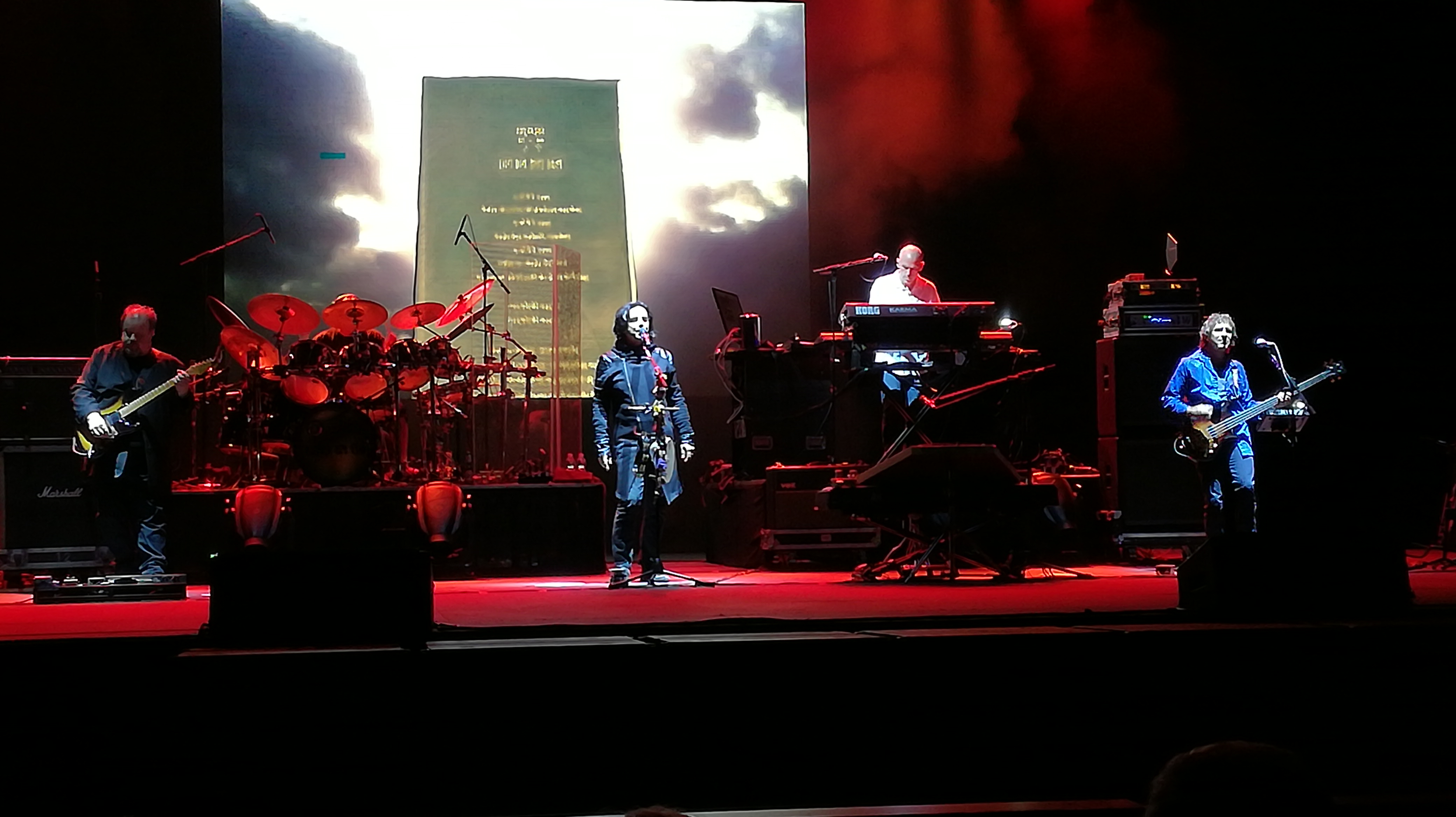 Marillion live at Teatro degli Arcimboldi in Milan on October 4th, 2017